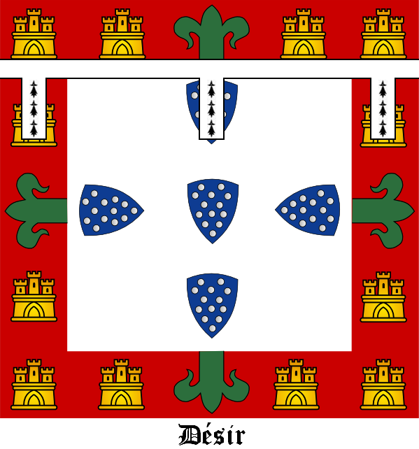 Banner of Arms of Portuguese Prince Peter, Duke of Coimbra